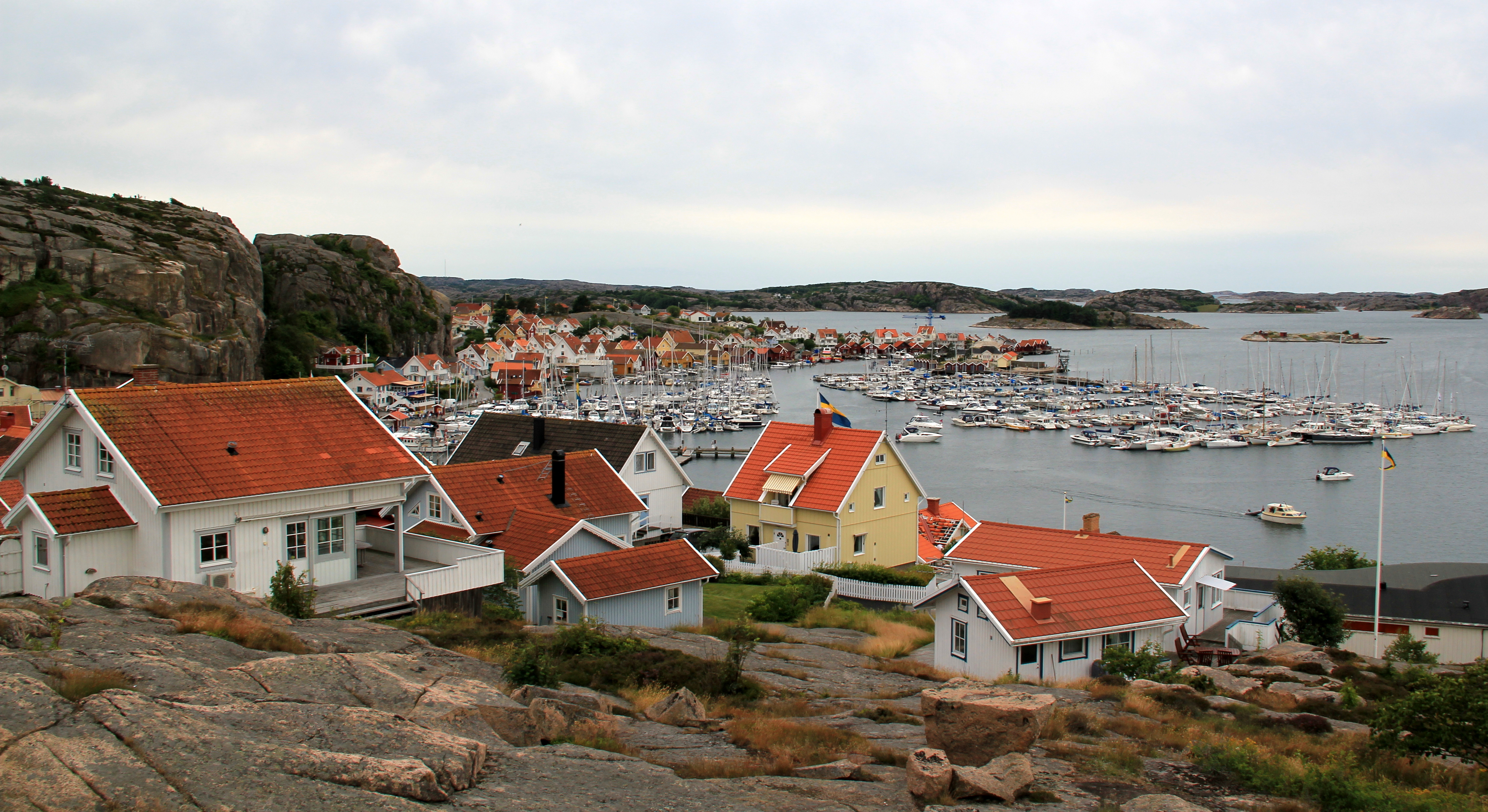 Fjällbacka, Sweden